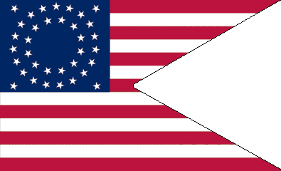 Facsimile of the Battery L, 1st Missouri Light Artillery flag during the American Civil War. This is edited from the Wikipedia Commons file: "U.S. flag (35 stars).png". It is based on the flag shown here